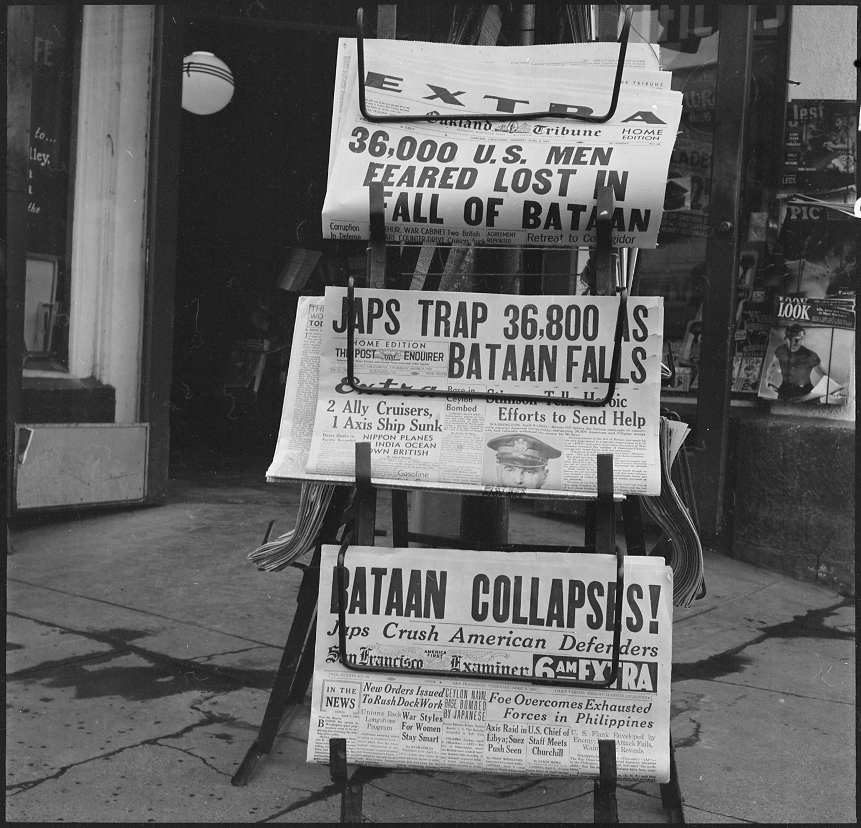 Scope and content: The full caption for this photograph reads: Hayward, California. As Bataan fell, as recorded in these newspapers of April 9, 1942, evacuation of residents of Japanese ancestry was already under way in California. This newsstand was pictured at a corner drugstore in a neighborhood in which such residents lived. Evacuees will be housed in War Relocation Authority centers for the duration. (additional description, not from original file: The newspapers depicted are the San Francisco Examiner, the Oakland Post-Enquirer, and the Oakland Tribune)